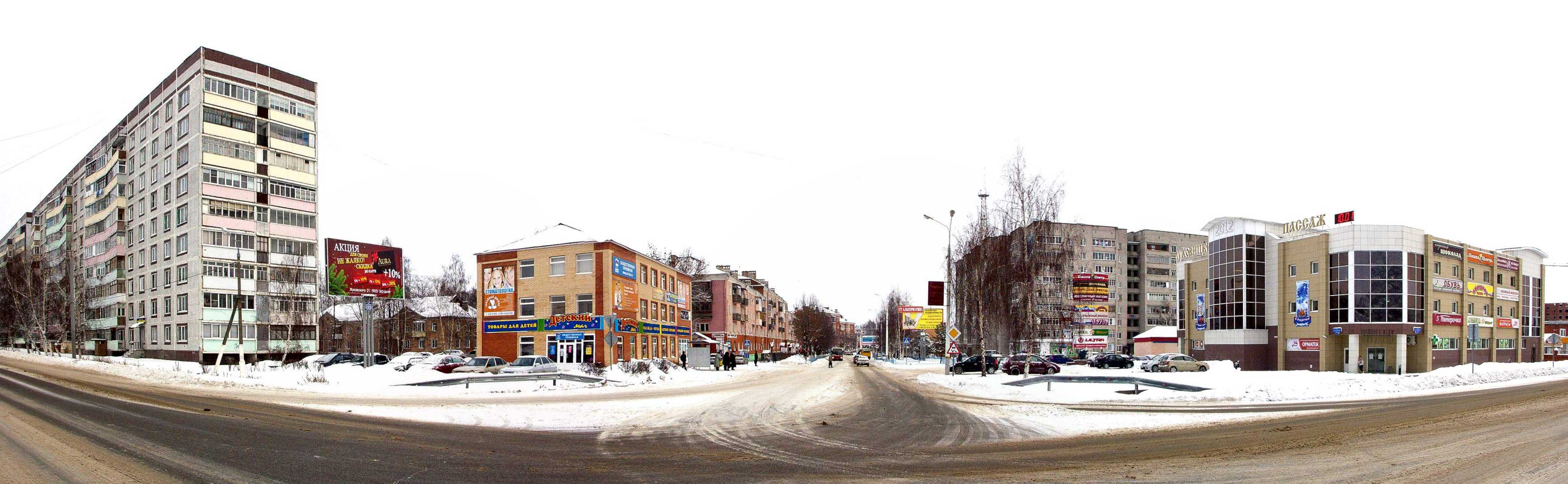 Zhukovsky Street, Lukhovitsy